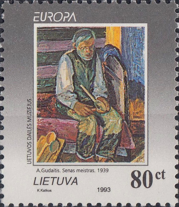 Europa.Contemporary Art. Date of issue: 24th December 1993 Designer: K. Katkus Paper: coated Printing process: offset Perforation: comb 12 Size: 30 x 35 mm Sheet composition: 50 (5 x 10) stamps Printing run: 500.000 Michel catalogue number: 544 80 C. multicoloured. "The Ladle Carver" (A.Gudaitis, 1939)